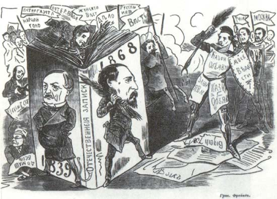 Nikolay Nekrasov gets the "Otechestvenniye zapiski" magazine from Andrey Krayevsky. Caricature in "Iskra" satirical magazine, 1867-1868.